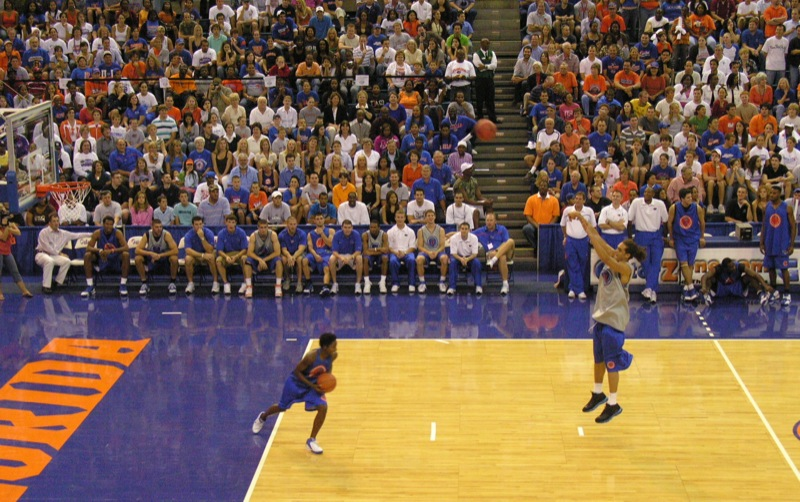 Sha Brooks and Joakim Noah at Midnight Madness (basketball) three-point shootout